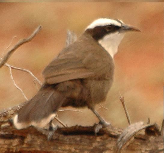 Hall's Babbler (Pomatostomus halli) Bowra, SW Queensland, Australia